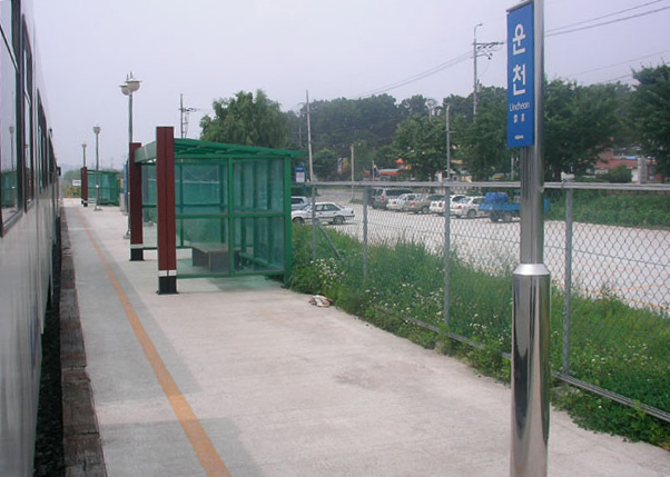 Uncheong Station platform